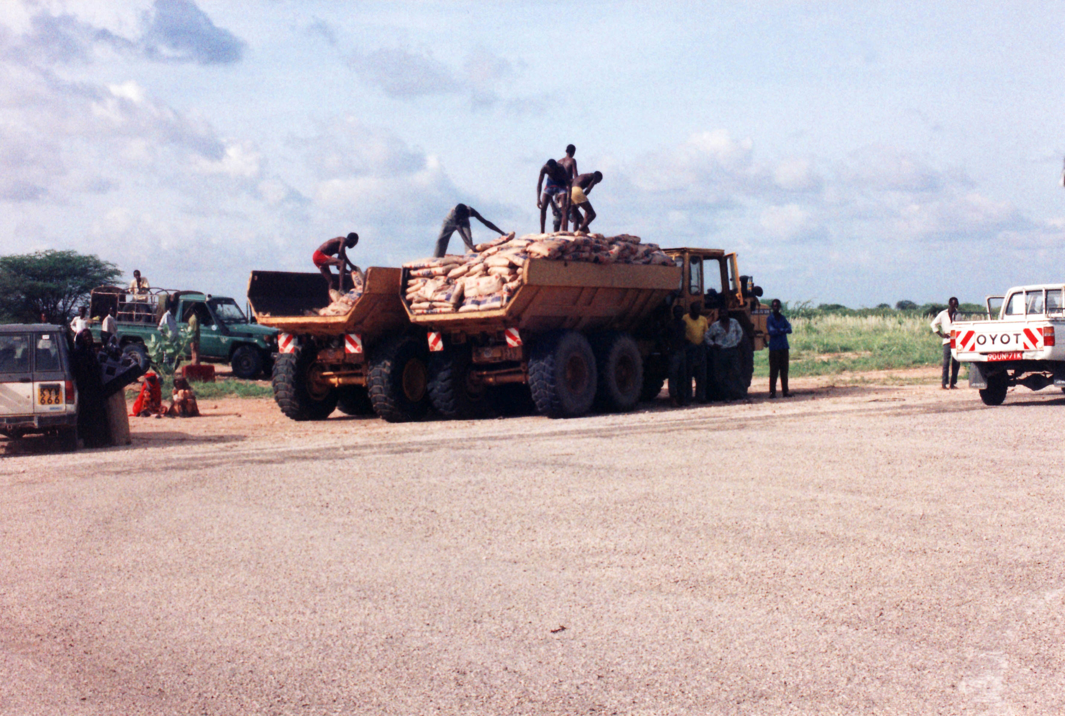 Local men unload trucks filled with American aid near Wajir, Kenya. We made one stop in Wajir where Somali refugees had arrived. I could not recall if this photo was from that stop, or one in Somalia. But another flickr user, faogazy, was helpful in reading the license plates on the backs of the vehicles. Those plates are mostly Kenyan, leading me to believe this was from the stop in Wajir.